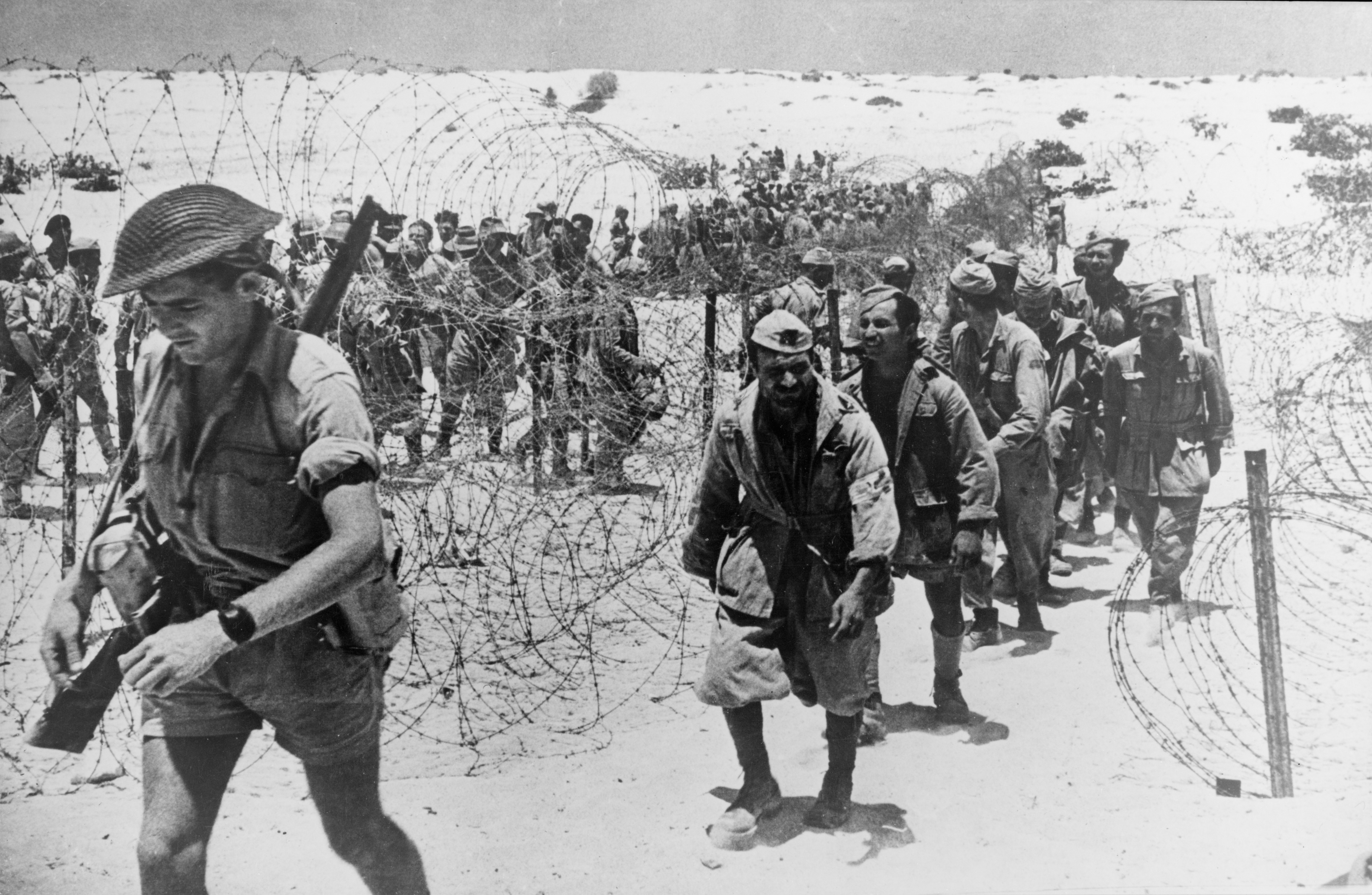 Original caption: "Prisoners captured in fighting in the El Alamein area. Photo shows Italian prisoners of war captured in the El Alamein area entering the "cage" preceded by their guard."